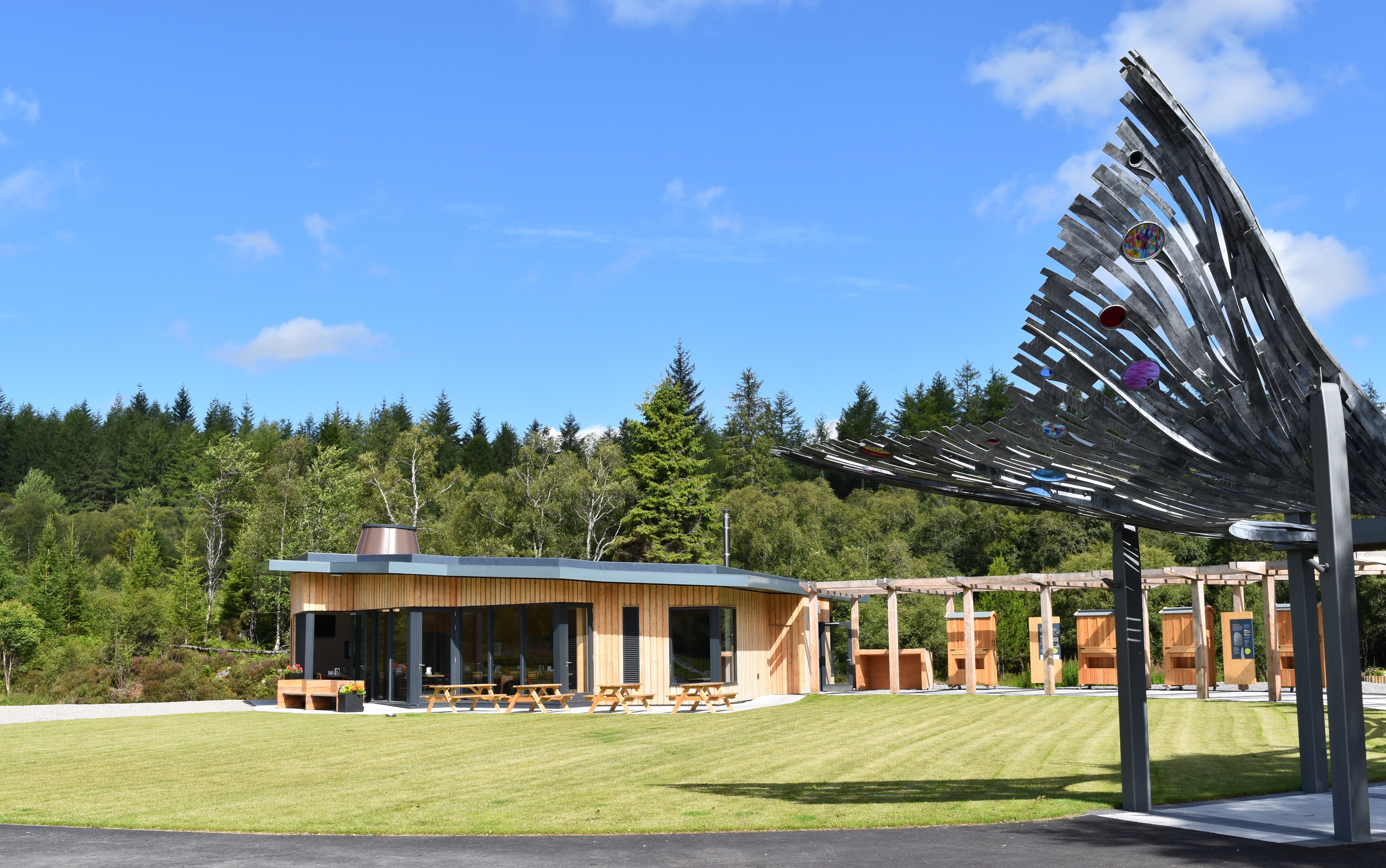 The rebuilt Falls of Shin Visitor Centre by WGC under the KoSDT